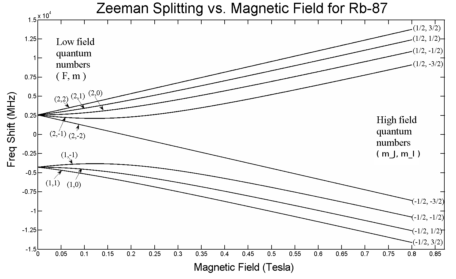 Graph showing the Zeeman splitting in Rb-87, the energy levels of the 5s orbitals, including fine structure and hyperfine structure. Here, the quantum number F = J + I, where I is the nuclear spin. (for Rb-87, I = 3/2). The original splitting is due to zero-field fine structure + hyperfine splitting. Graph was produced in MATLAB by plotting the Breit-Rabi equation. The code can be viewed here